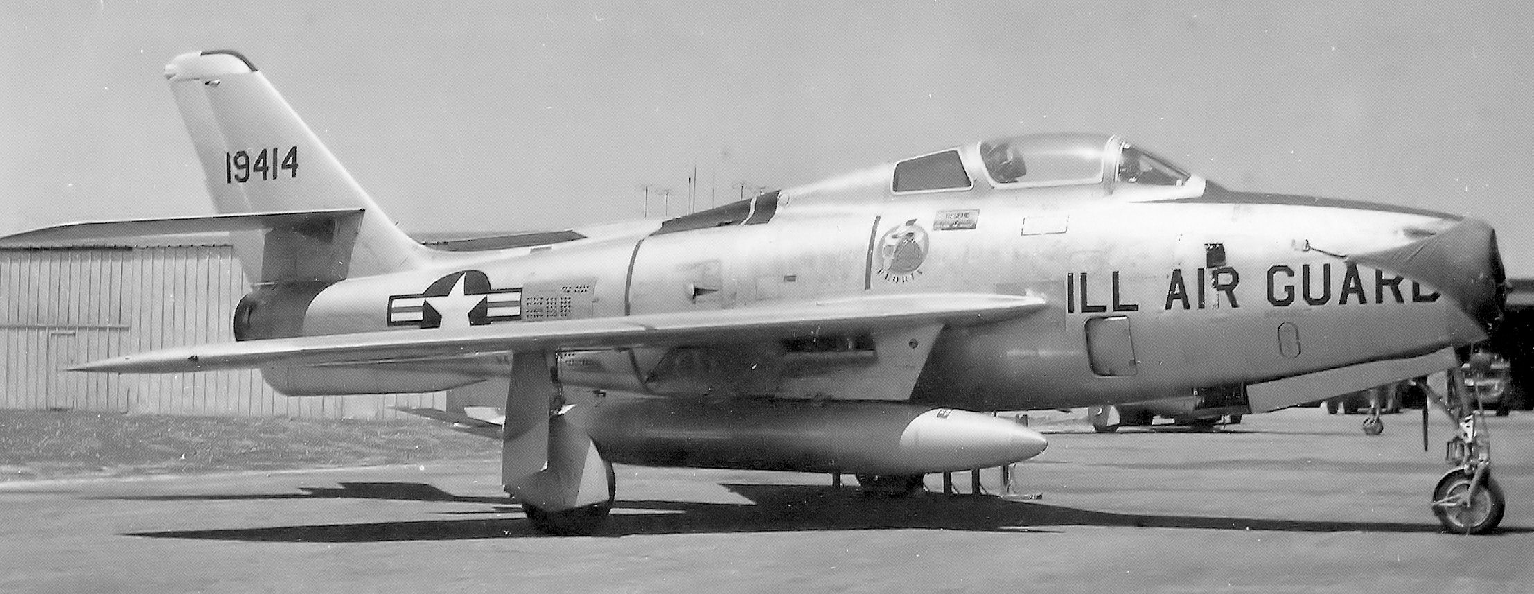 169th Tactical Fighter Squadron General Motors F-84F-30-GK Thunderstreak 51-9414